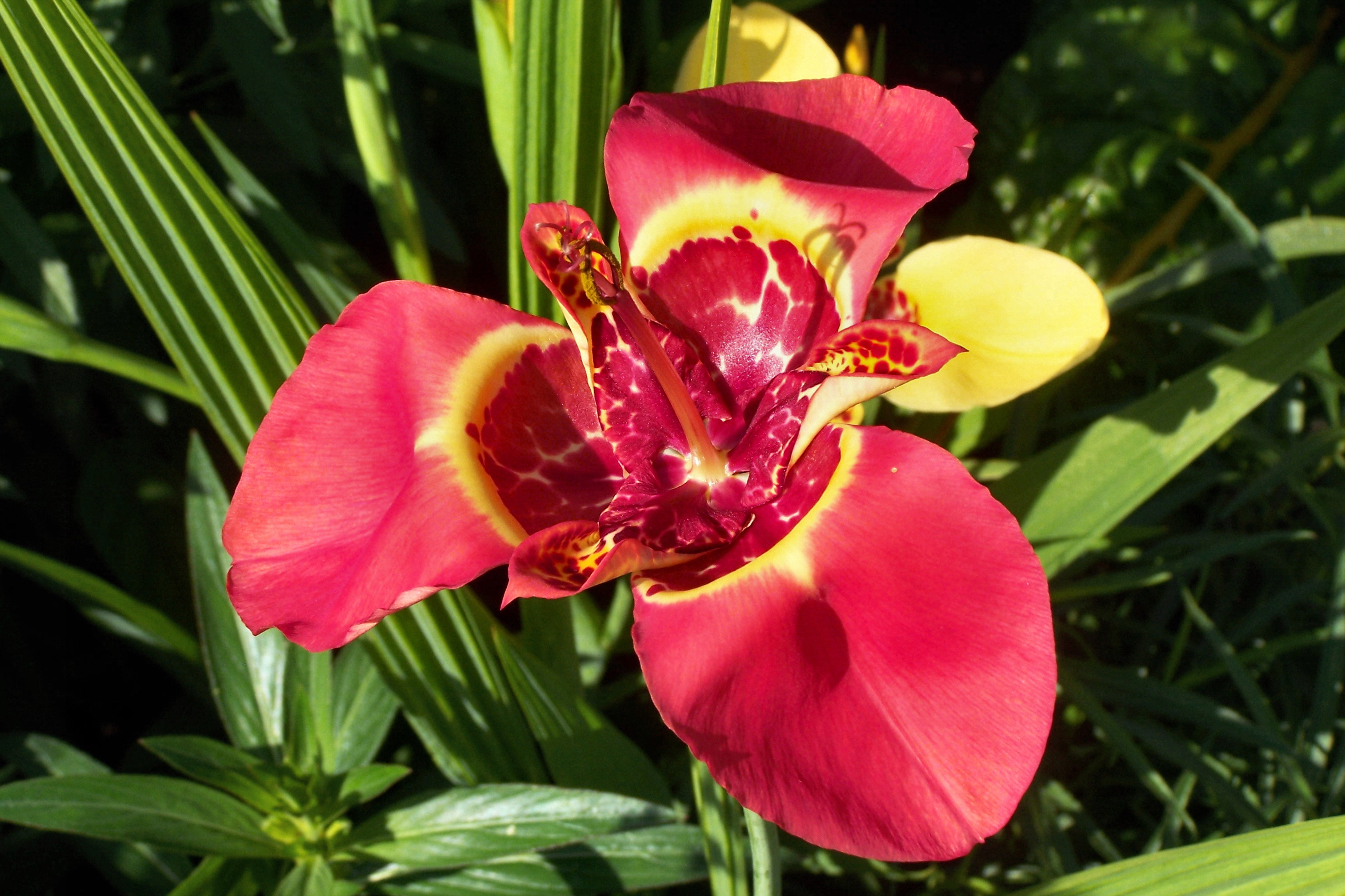 Tigridia flower in a garden in Germany, presumably a Tigridia pavonia cultivar